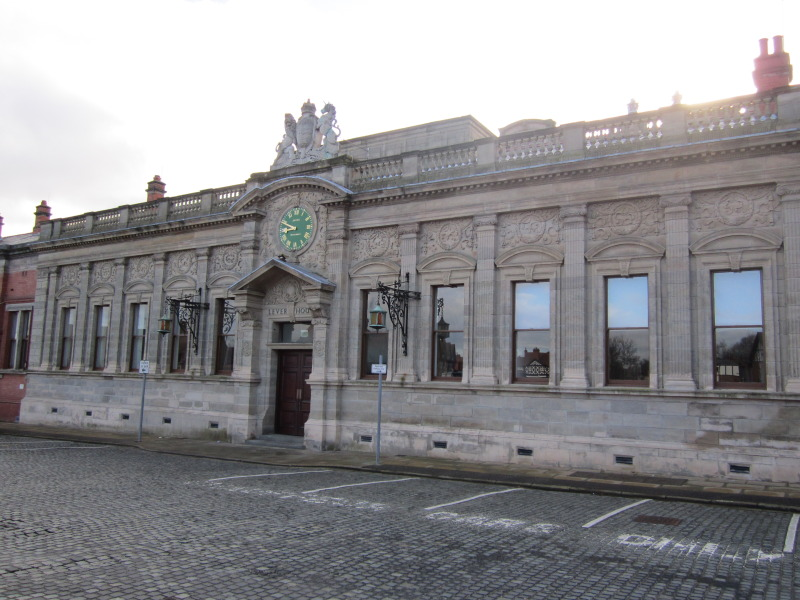 Outside Lever House, Port Sunlight, Wirral, England.